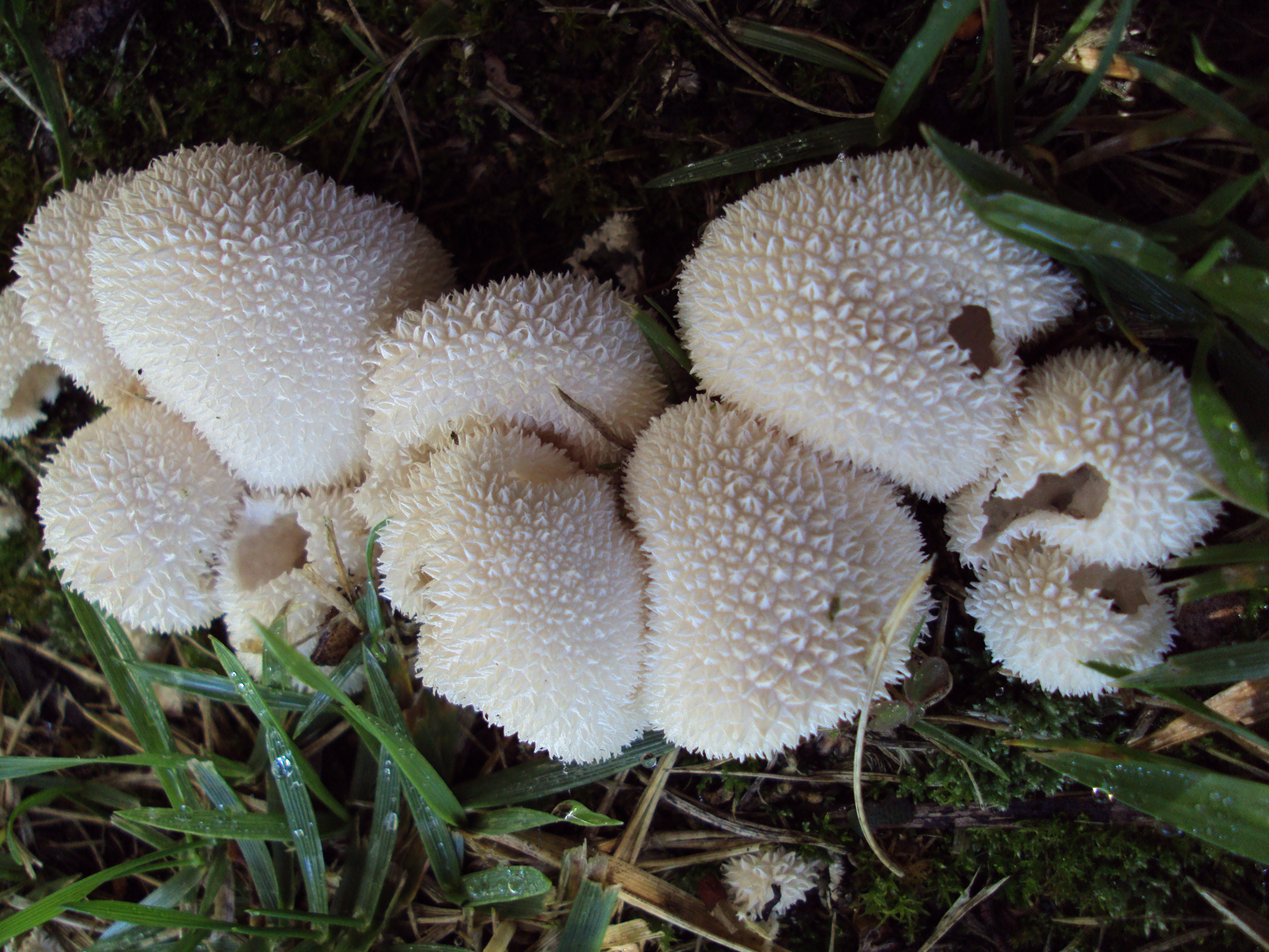 A fruit body of a Puffball mushroom — Lycoperdon curtisii − Berk. Specimen photographed in Orinda, Contra Costa Co., California, USA. "Notes: Growing on well watered lawn area in a garden in partial shade."